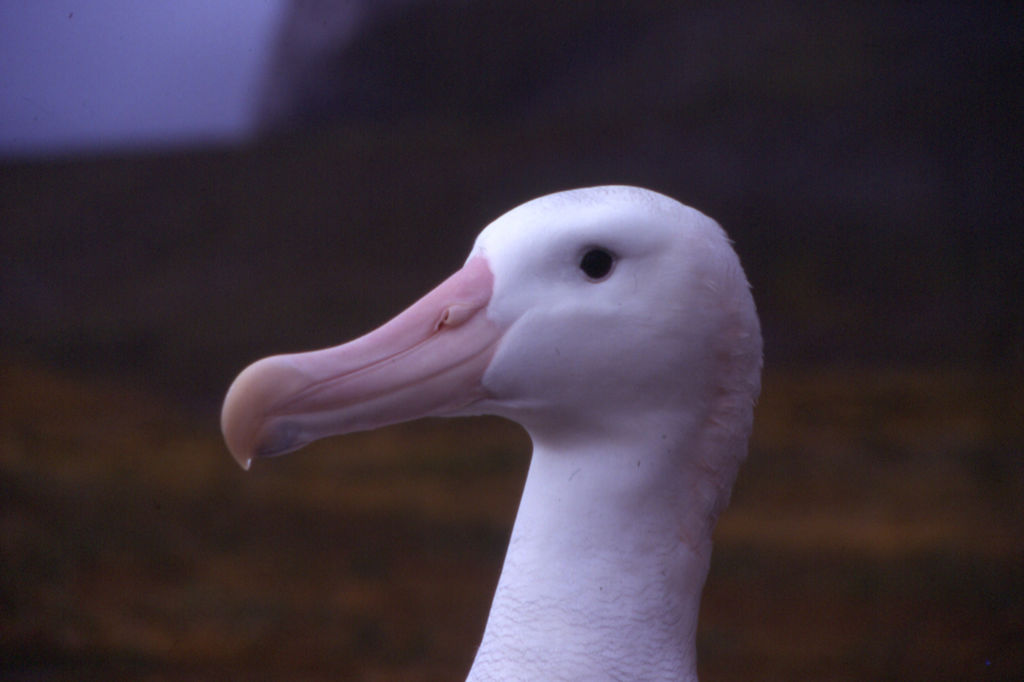 Wandering albatross. Diomedea exulans, on a berm on the wild sea, West coast of Grande Terre, the main island of Kerguelen archipelago (Presque-isle Ralier du Baty). Nearly 3 meters' wingspan.